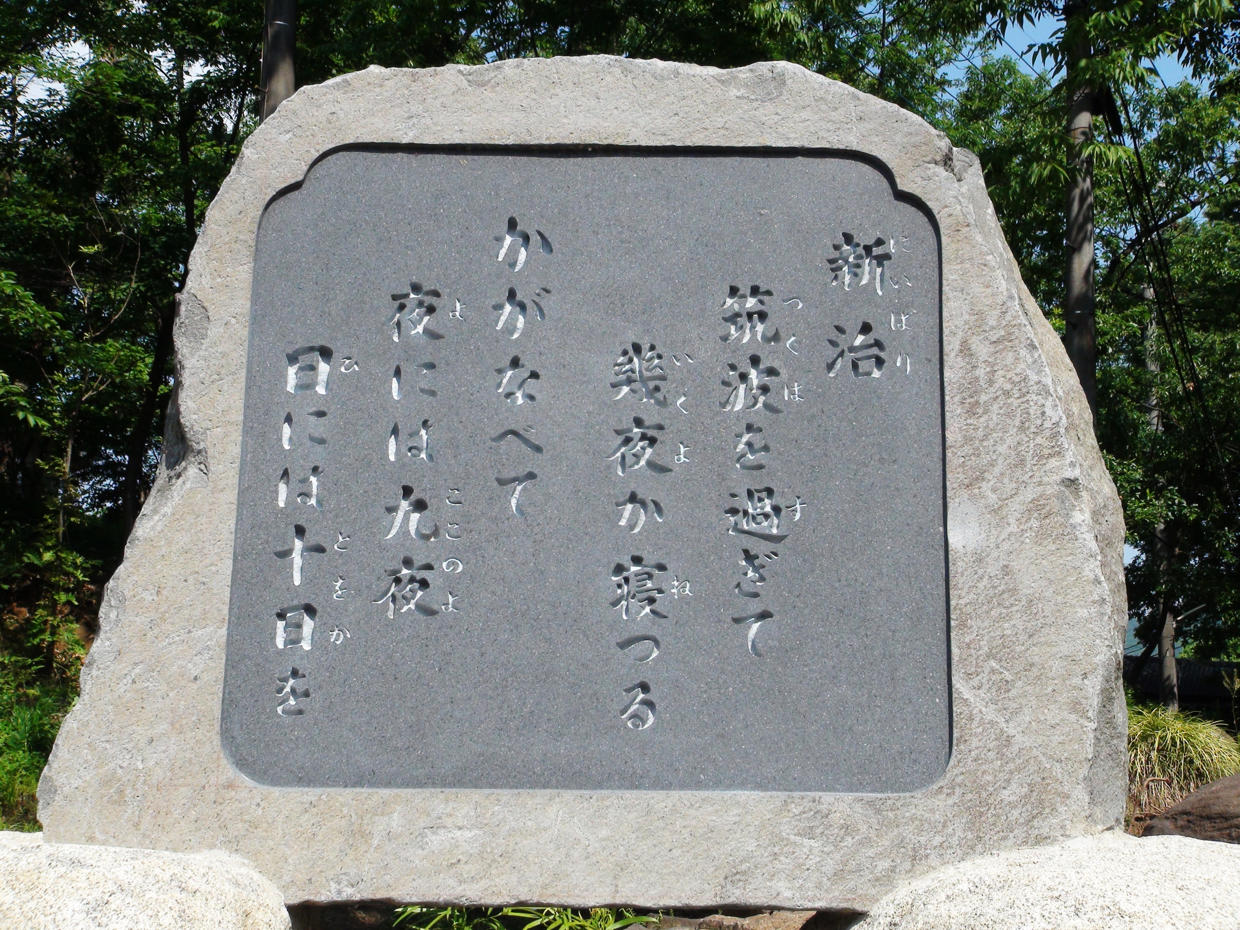 Sakaorimiya Shrine epitaph of RENGA